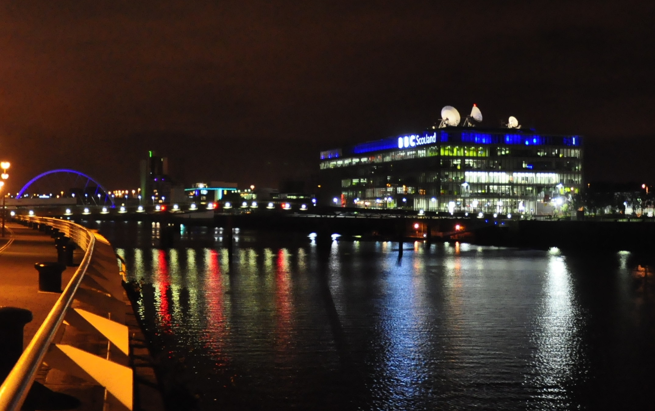 BBC Pacific Quay at River Clyde in Glasgow